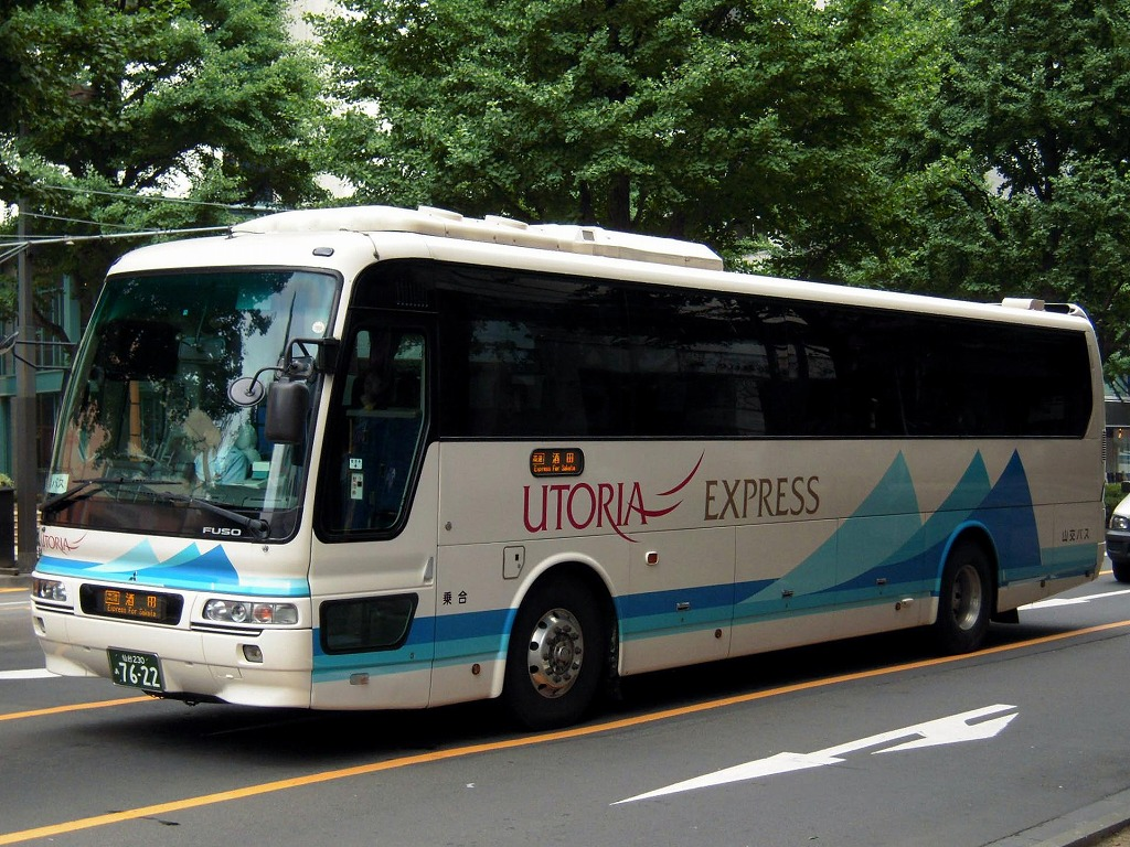 Yamako bus Mitsubishi Fuso Aero Bus (PJ-MS86JP) for highwaybus "Sendai-Tsuruoka,Sakata"